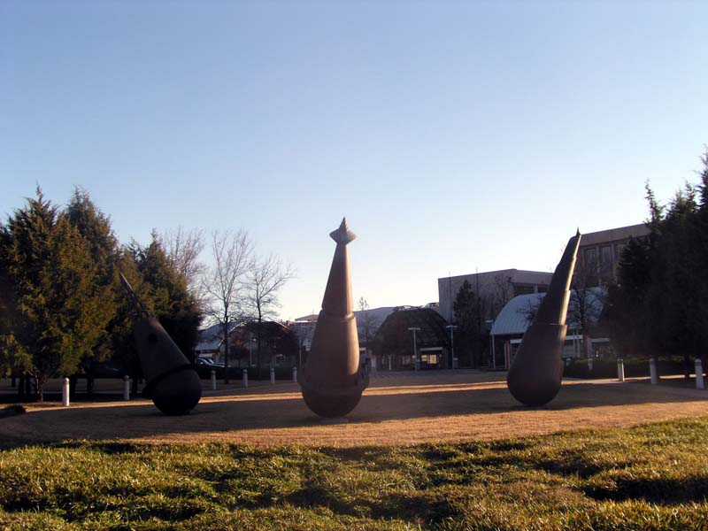 The DART Cedars Station in the Cedars neighborhood of south Dallas, Texas (USA)